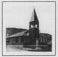 Church built for miners in Sunrise, Wyoming by Colorado Fuel & Iron at cost of $3,400 as part of general efforts to improve miner support for the company following the Colorado Coalfield War and Ludlow Massacre. Image appears in essay "Colorado's Civil War and Its Lessons" by Edwin R. A. Seligman, published in Frank Leslie's Weekly on 5 November 1914.